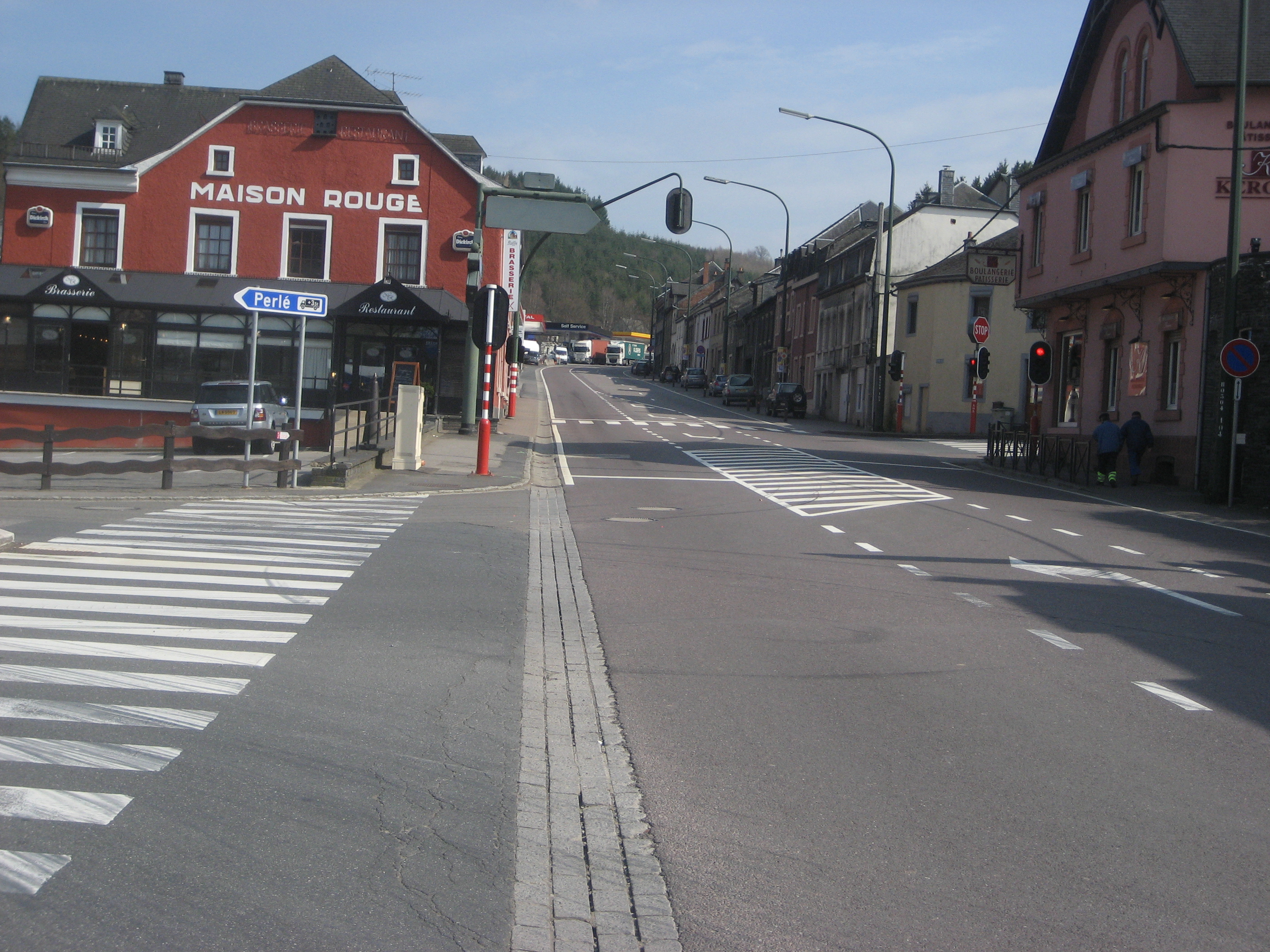 Border between Martelange (Belgium) and Martelange-Rombach (Luxembourg). The border line between Belgium and Luxembourg is for 1.8 km parallel to the road and separates the town. The street itself and the houses at the right side belong to Belgium, the red house and all the gas stations are on the Luxembourgish territory. The "Luxembourgish" gas stations are only reachable from Belgian territory. In front of the entrance of the restaurant, you can see one of the old border poles from 1843.